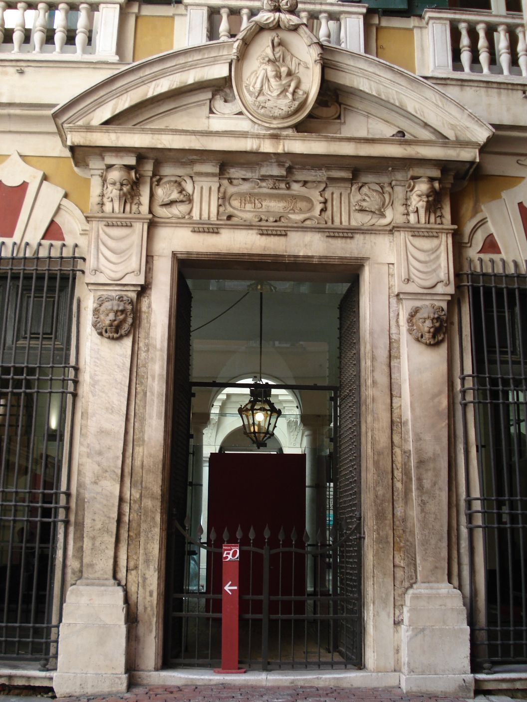 Spinola di Pellicceria Palace in Genova